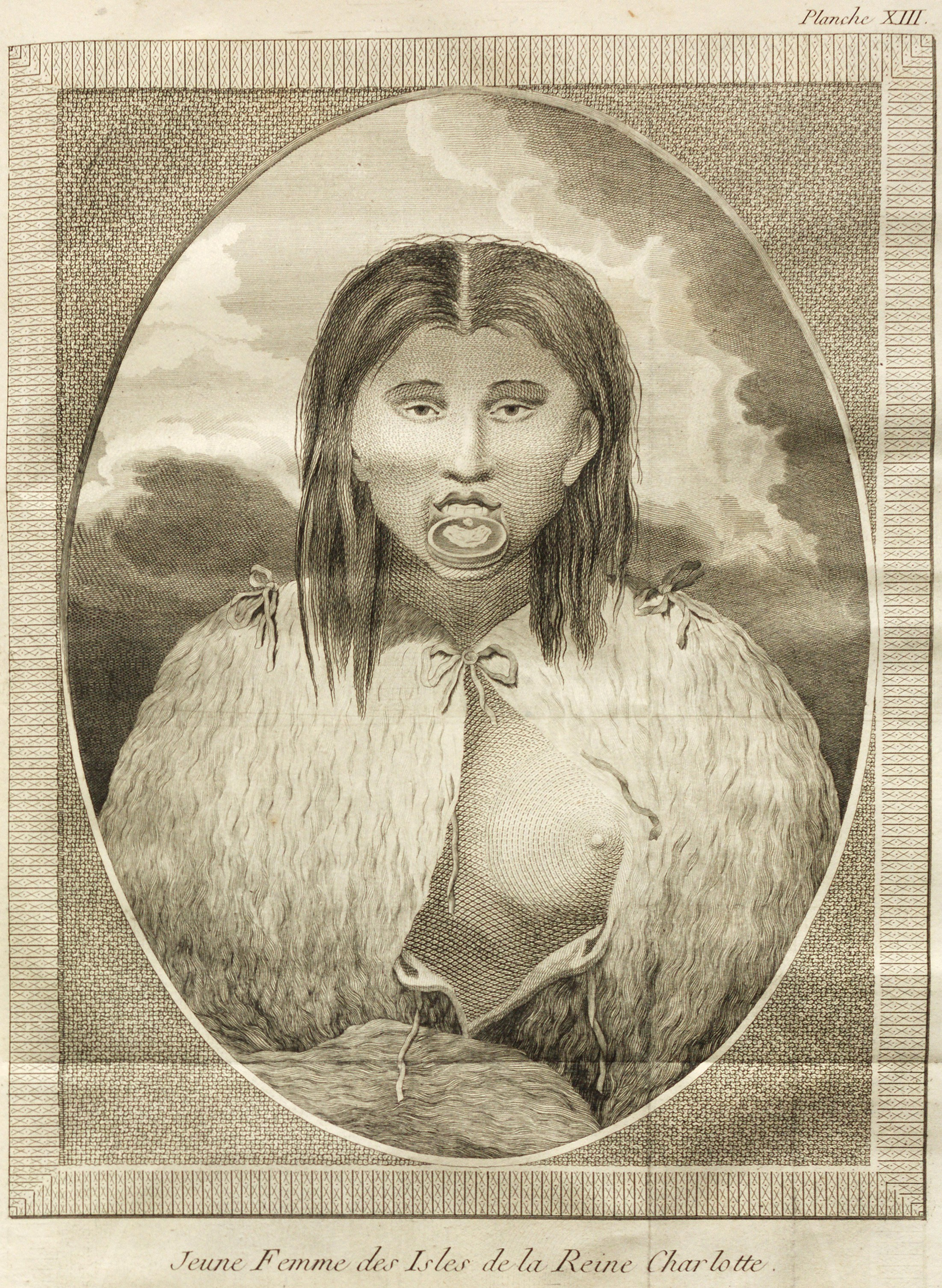 French translation of A voyage round the world, but more particularly to the north-west coast of America [microform] : performed in 1785, 1786, 1787, and 1788, in the King George and Queen Charlotte, Captains Portlock and Dixon ; dedicated, by permission, to Sir Joseph Banks, Bart.